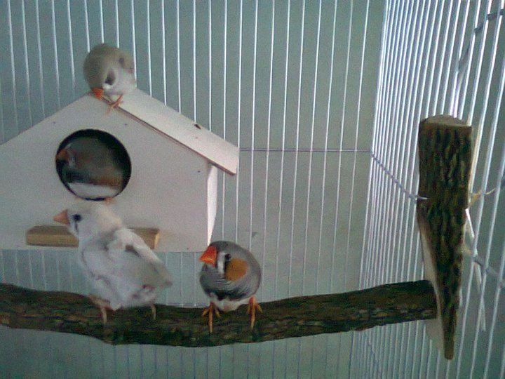 Picture of 4 zebra finches inside a cage.Tagalog: Larawan ng 4 na diyamanteng mandarin sa loob ng kulungan.